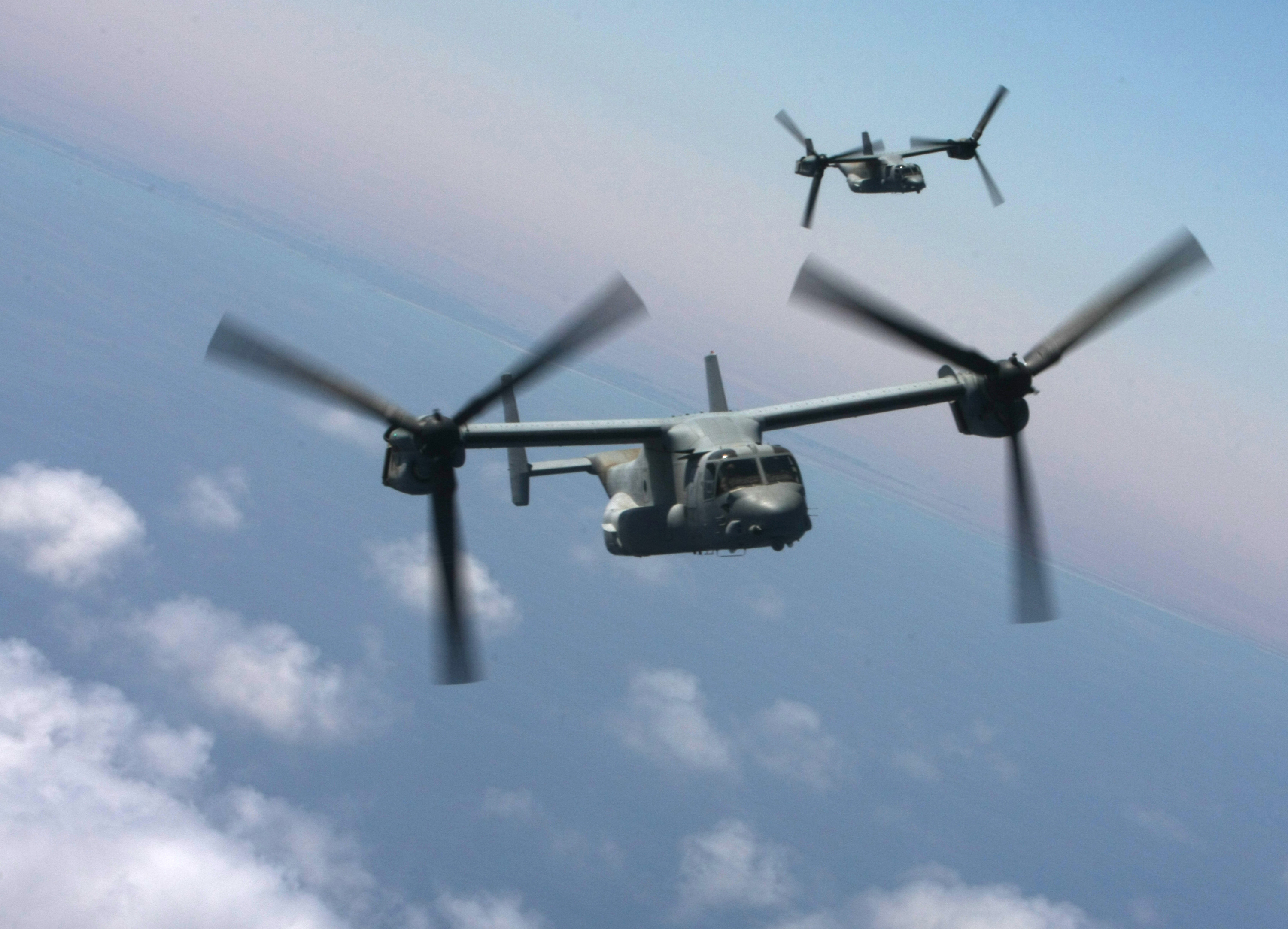 MV-22B Ospreys assigned to Marine Medium Tiltrotor Squadron 263 (Reinforced) from the 22nd Marine Expeditionary Unit, fly over the Egyptian coastline during Exercise Bright Star 2009. Bright Star is a biennial, multinational exercise designed to improve readiness, interoperability, and strengthen the military and professional relationships among U.S., Egyptian and participating forces. Bright Star is conducted by U.S. Central Command.